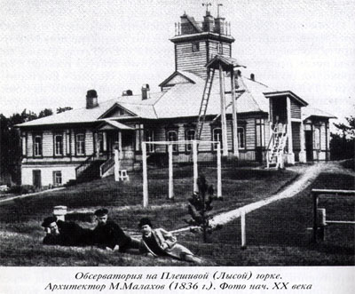 Meteorological observatory on mount Lysoi, Okyabrsky rayon, Yekaterinburg, early 20th century